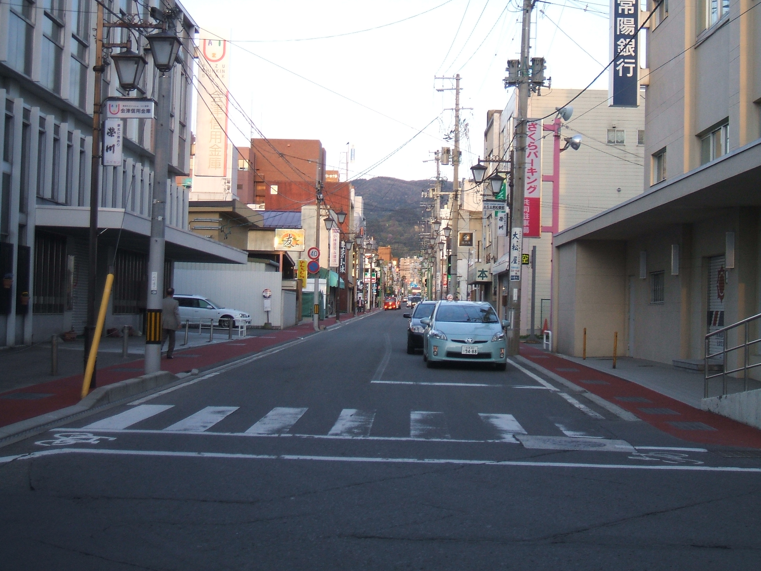 This is landscape of Ichinomachi, Aizuwakamatsu, Fukushima.